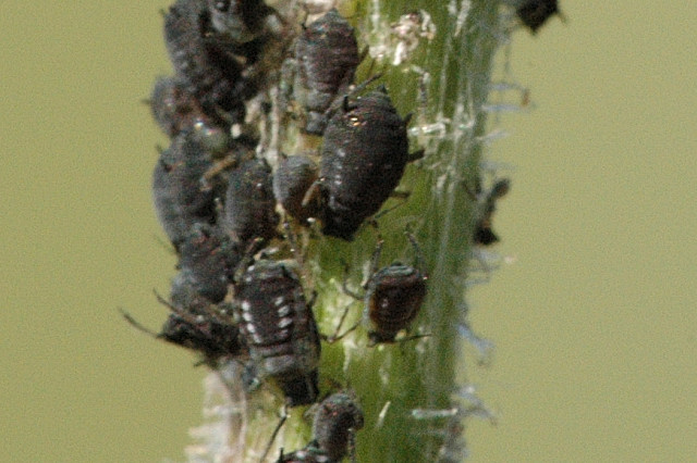 Picture taken in Commanster, Belgian High Ardennes . Species: Aphis fabae